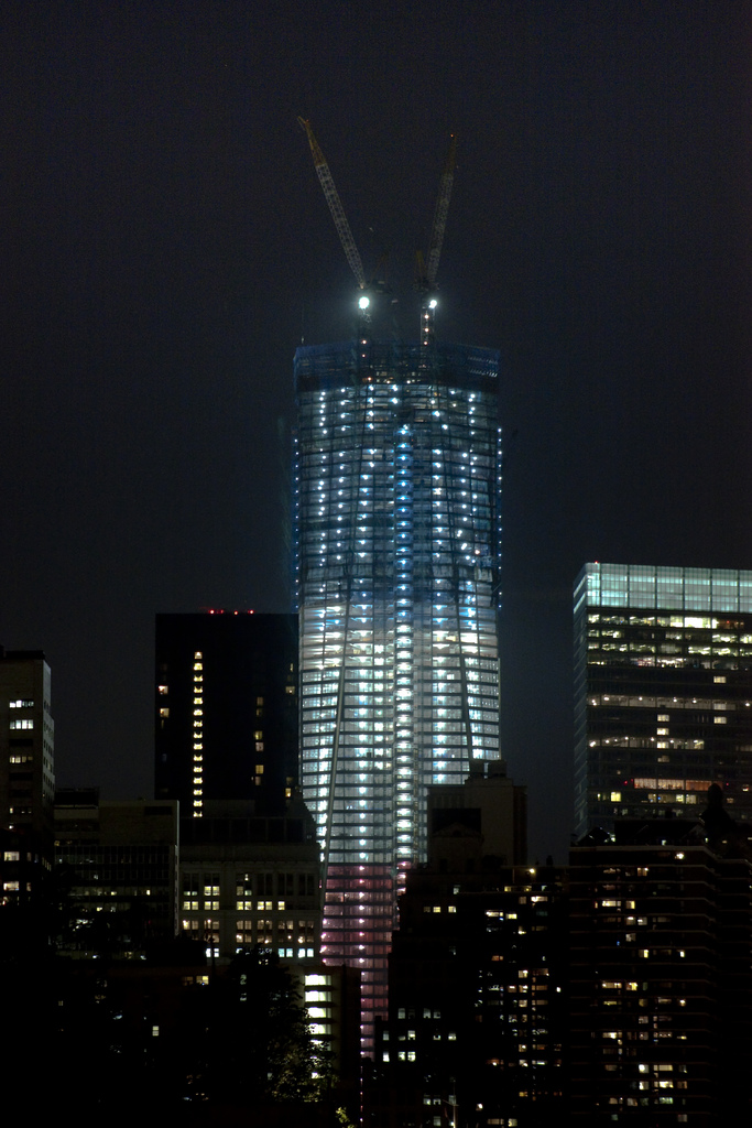 One World Trade Center under construction. Red white and blue lights displayed are in remembrance of 9/11.